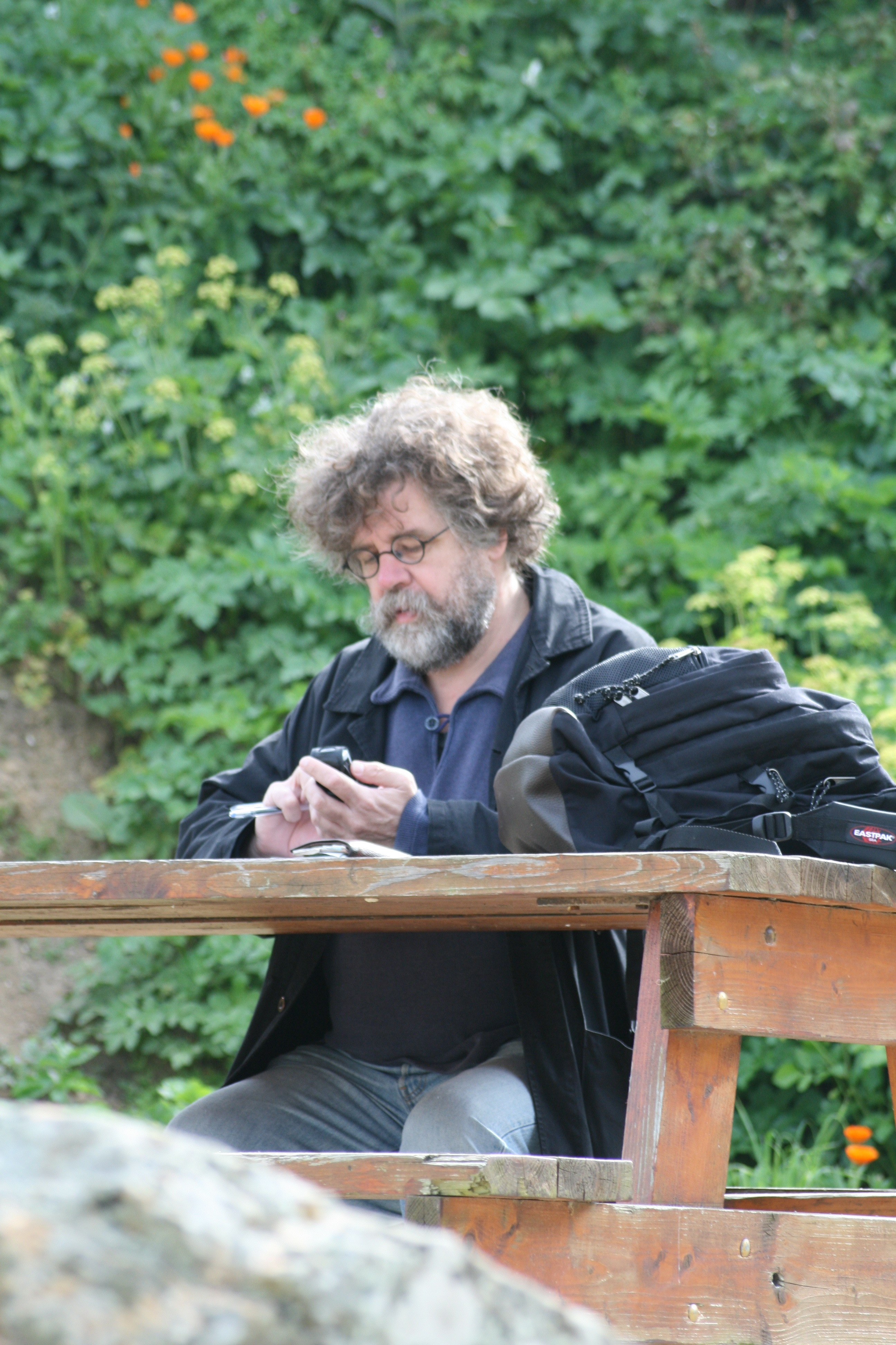 Bernard Weixler, architect